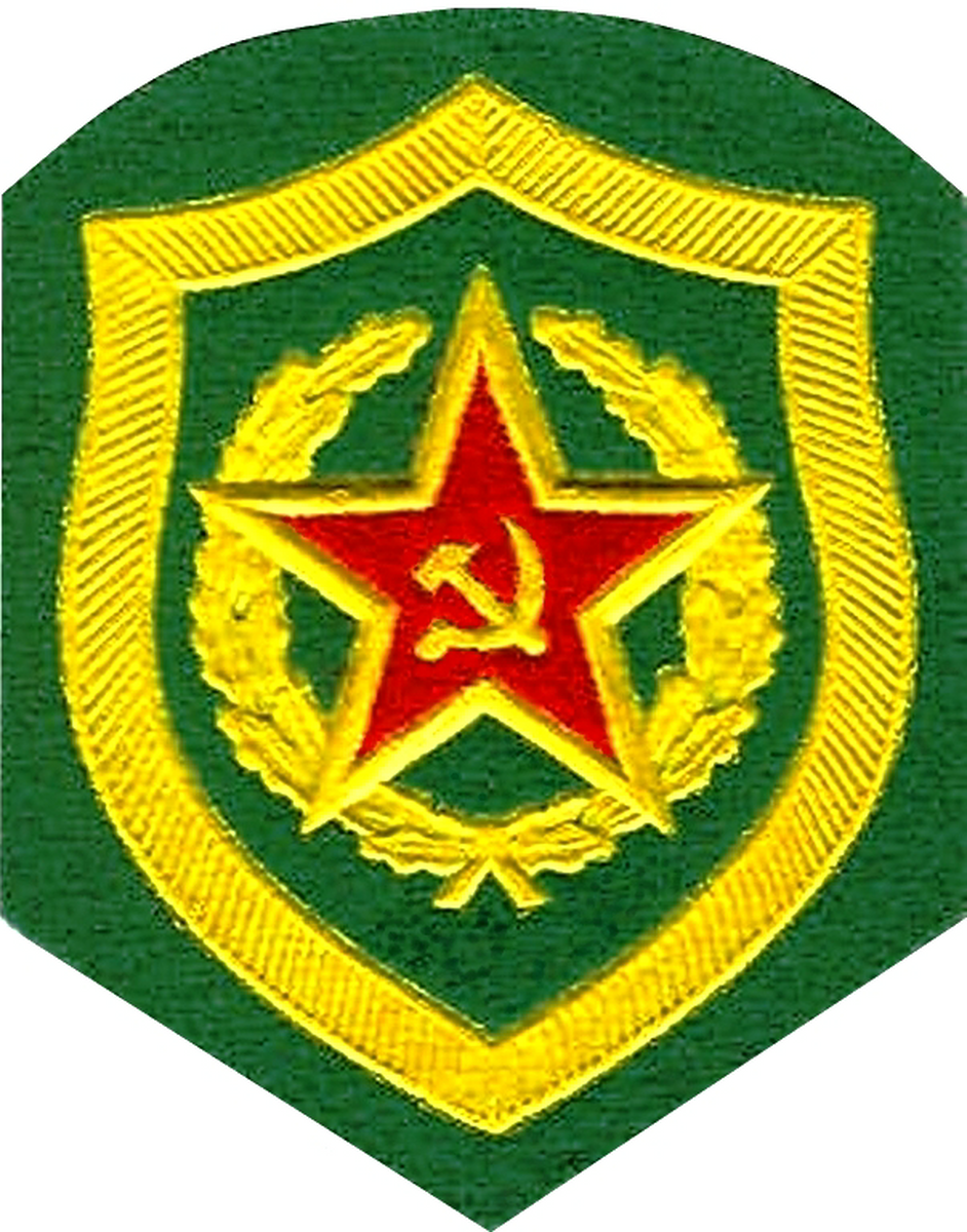 Emblem of the soviet armed forces 1960 to 1991, Soviet Army (military branches, service branches or armed services), sleeve badge (appliquéd) right hand upper arm (dress uniform/ parade uniform) to be used for the ranks OR1 to 8, and WO1 to 2, here: – “Frontier troops of the USSR”, design 1985.